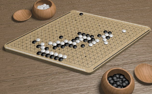 Hex (board game)